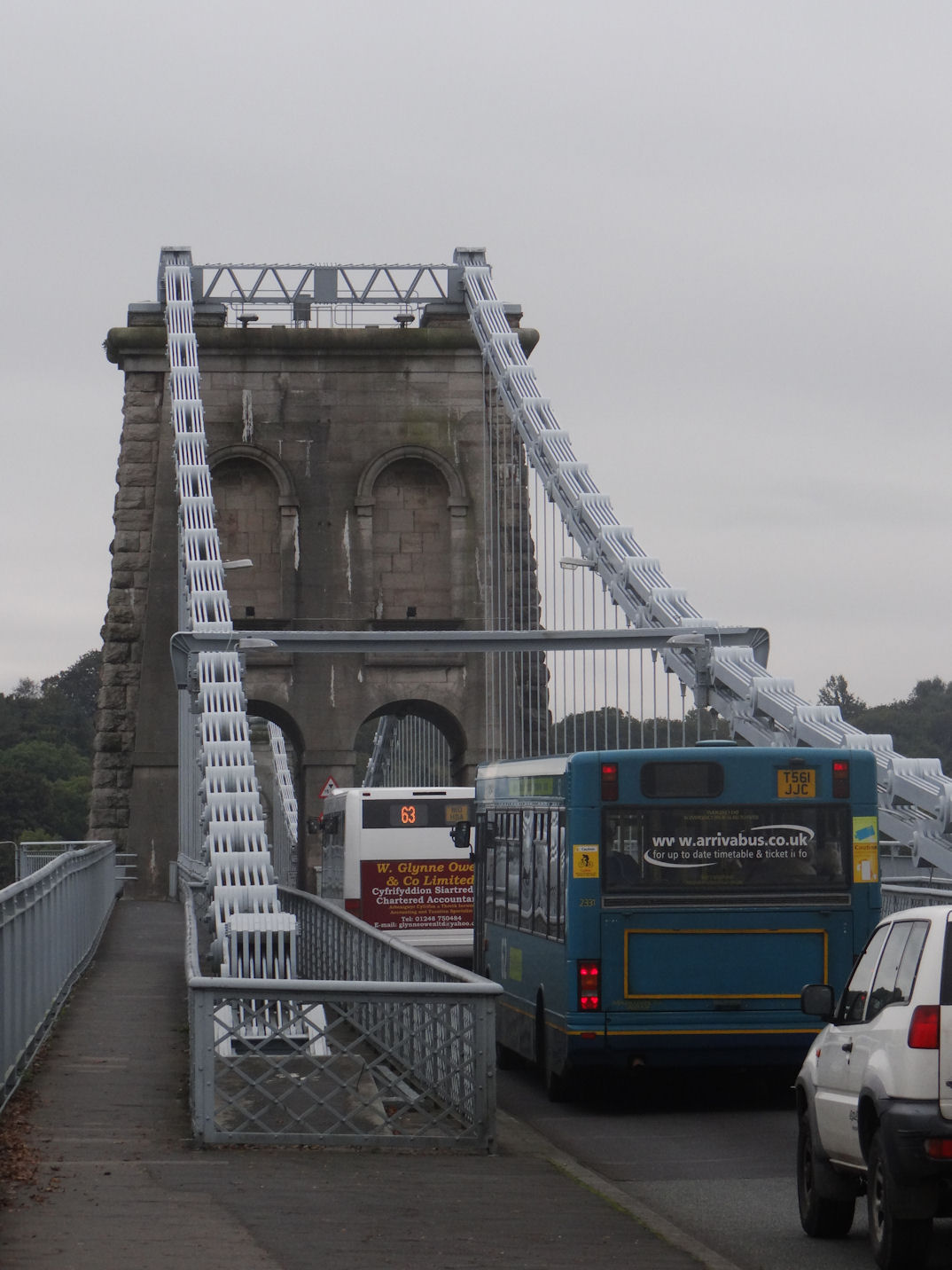 The Menai Suspension Bridge, by Thomas Telford, the renowned Engineer, work started in 1819, and was completed in 1826. The volume of modern day traffic now causing problems.